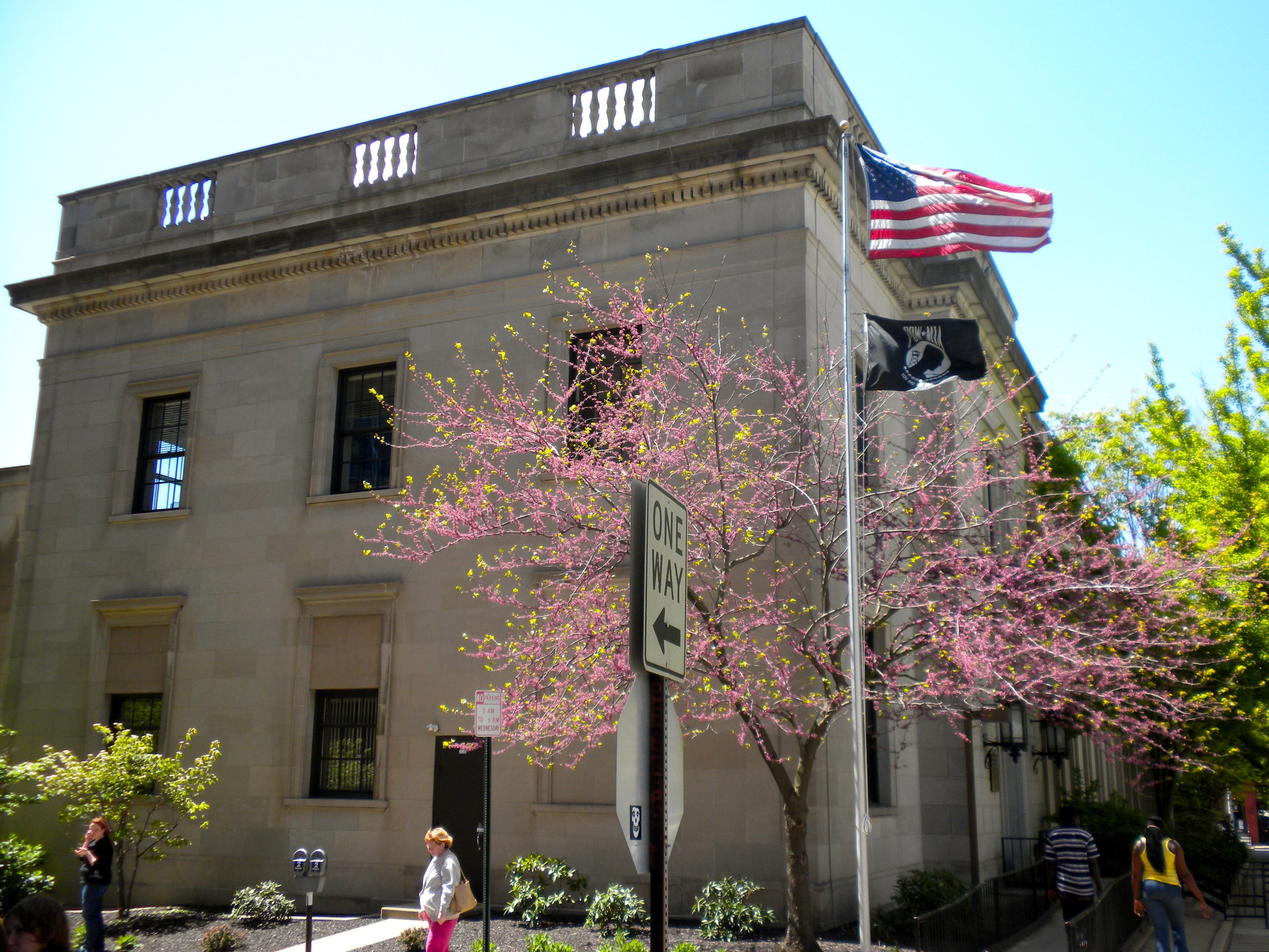 U.S. Post Office in Lancaster city, PA, on NRHP since July 23, 1981. At 50 West Chestnut Street, Lancaster, Pennsylvania. Part of the building is now used as corporate HQ for "Auntie Annie's"